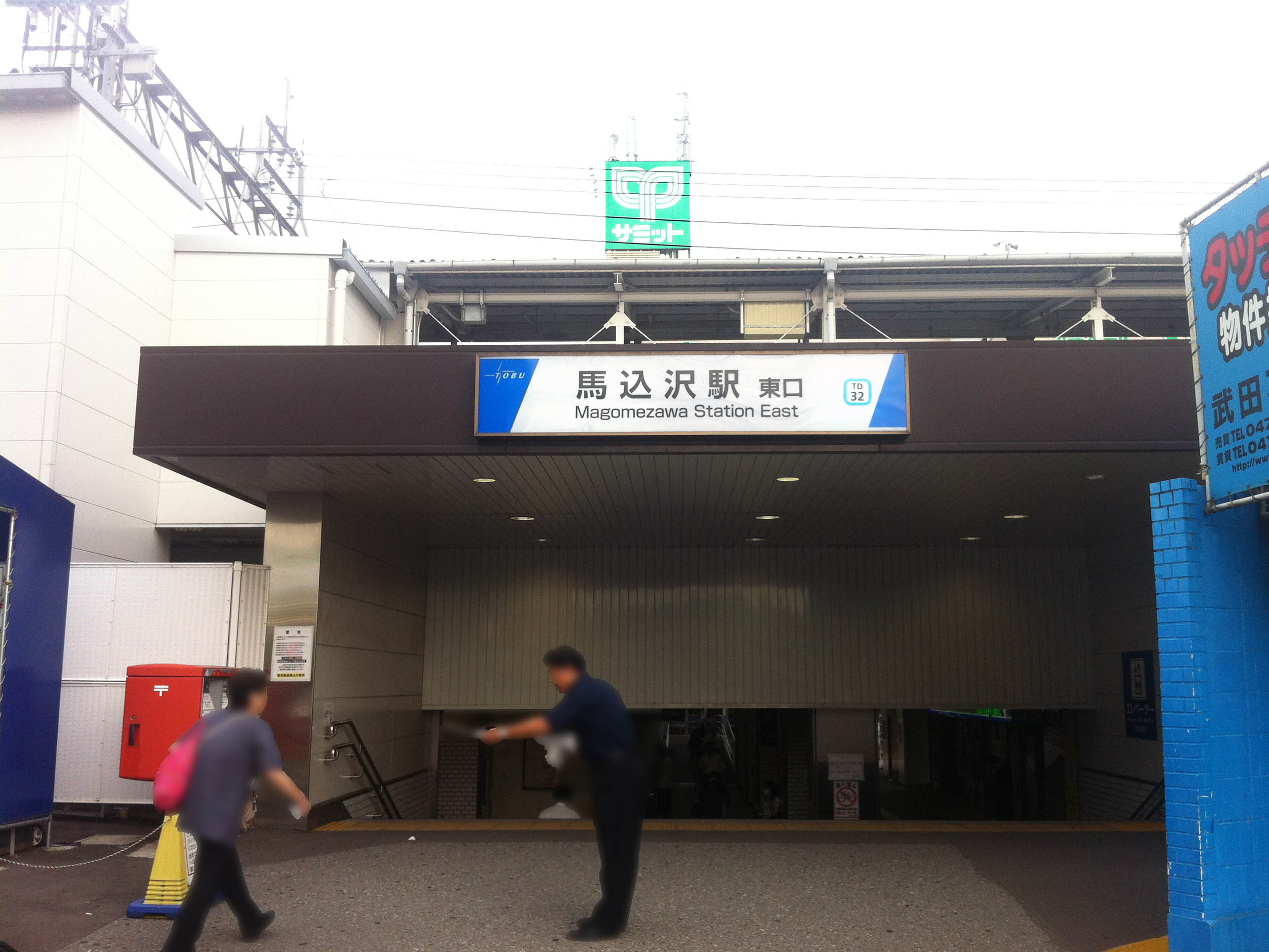 馬込沢駅の東口 Magomezawa, east exit